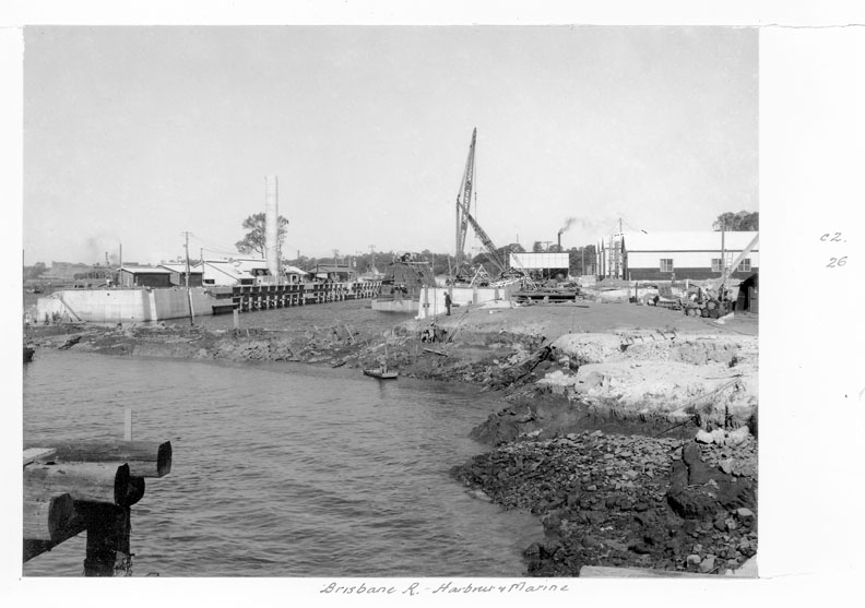 Cairncross Dock site, Brisbane. (The origional photograph caption makes reference to Brisbane River and the Harbours and Marine Department.)